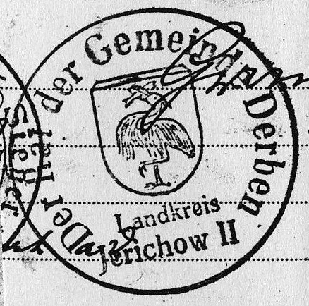 Seal of Derben, Germany